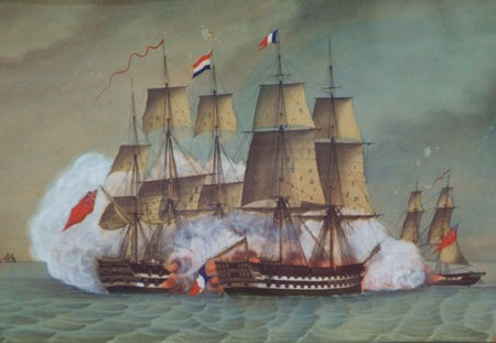 Battle of Pirano (21-22 February 1812). Impression by Giovanni Luzzo, colored by Krsto Viskovi in 1874. (Municipal Museum of Perast, Montenegro)